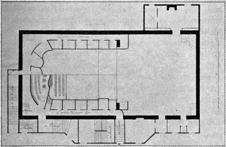 Plan of the Bollhus Theater, Stockholm